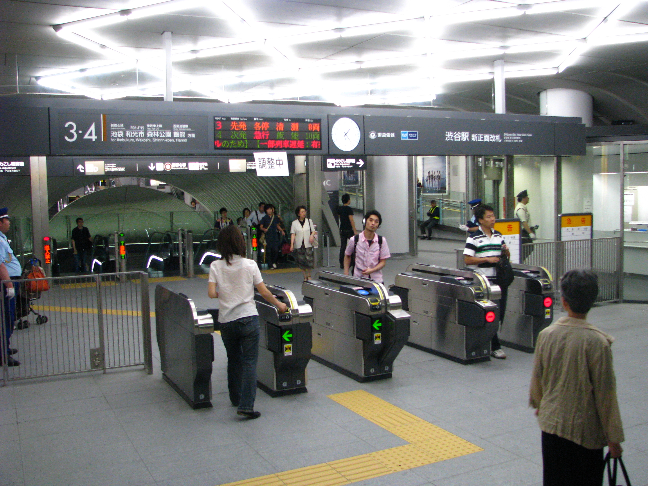 Shibuya Station (Tokyu and Tokyo Metro), Shibuya W, Tokyo M.